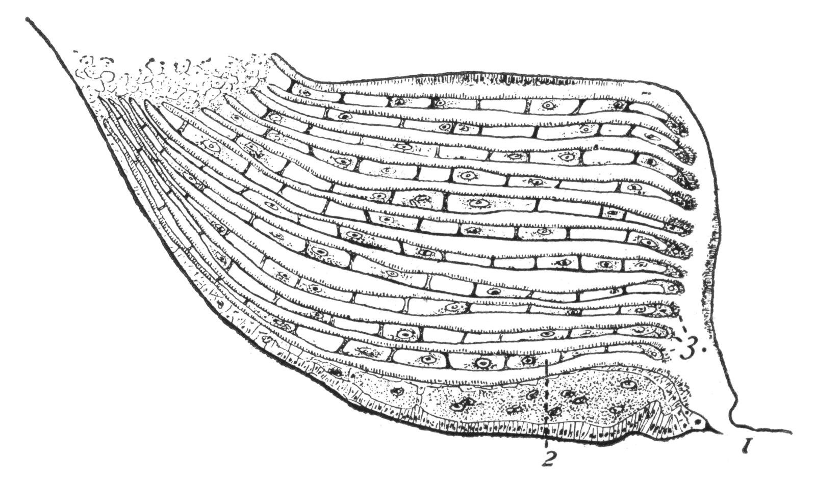 Diagram of spider book lungs. (1) lung slit, (2) space filled with blood, (3) leaves of the book lung.